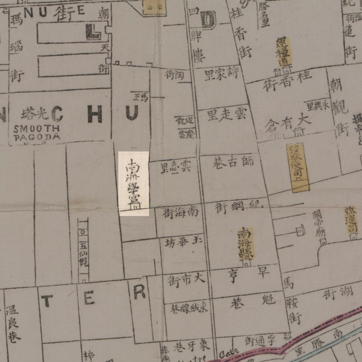 The map of location of Nam-hoi College in Canton City. It is based on a map in public domain named Map of the city and entire suburbs of Canton by D. Vrooman in 1860.